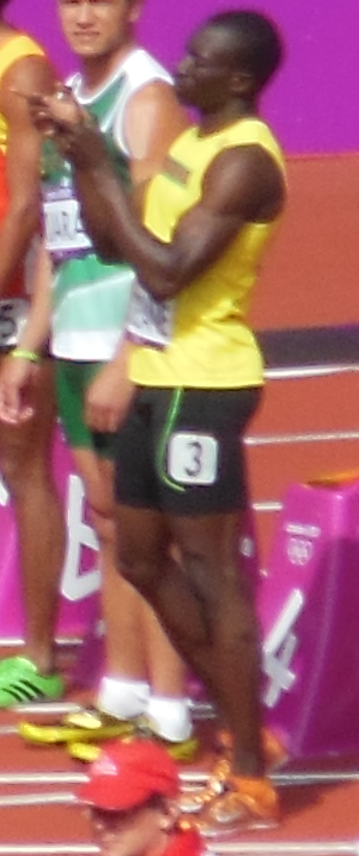 Athletics at the 2012 Summer Olympics – Men's 100 metres, Preliminaries heat 4: Gérard Kobéané